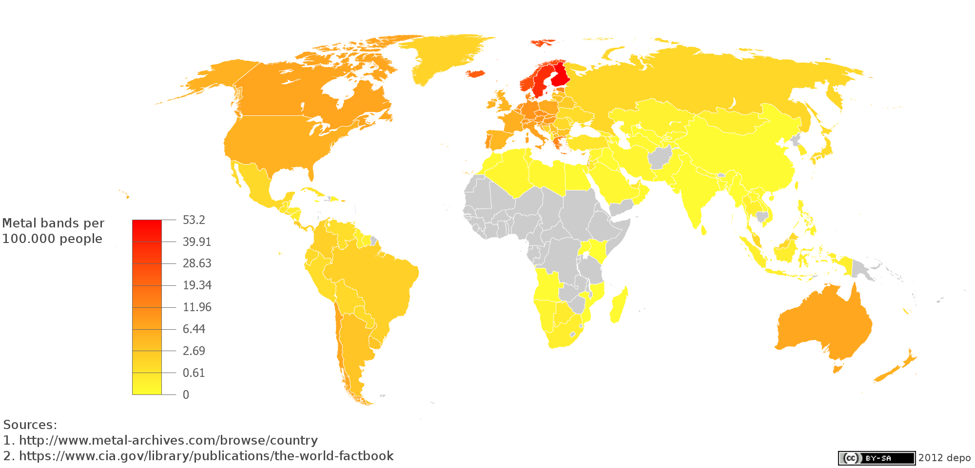 Map of metal bands per country, using data from Encyclopedia Metallum